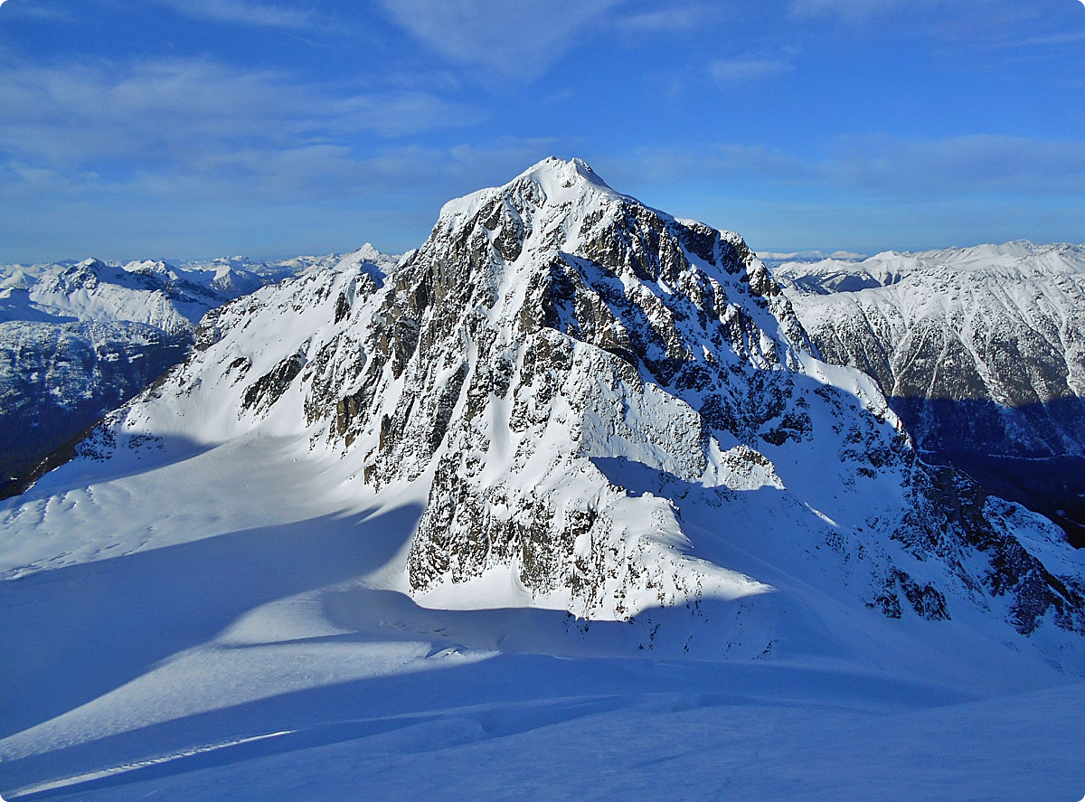 Joffre Peak seen from Mt. Matier